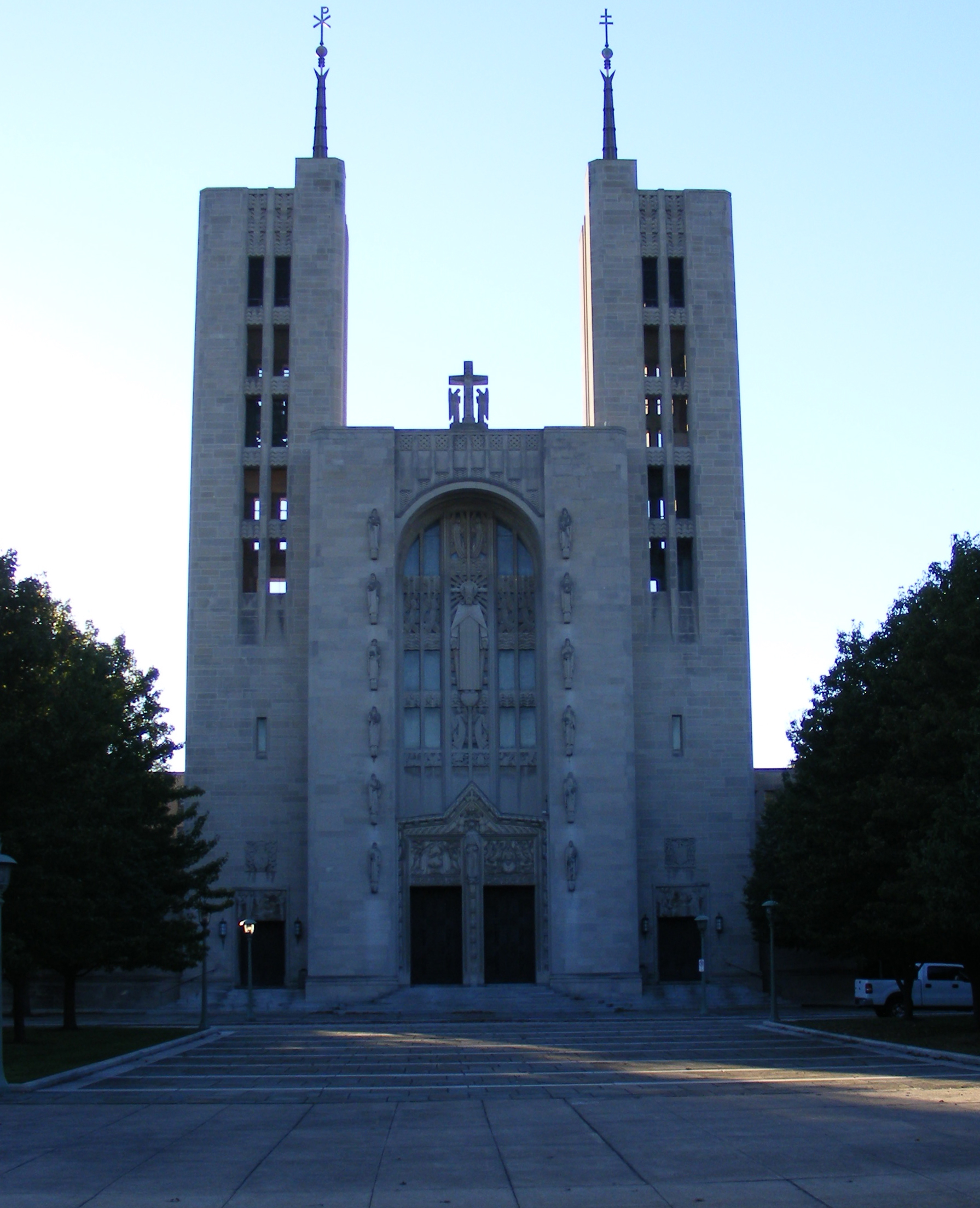 Cathedral of Mary Our Queen in Baltimore, Maryland